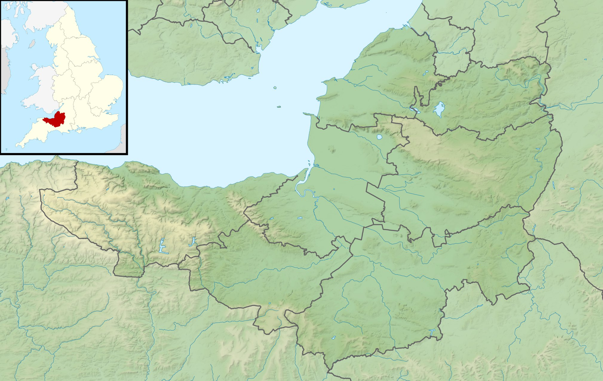 Relief map of Somerset, UK. Equirectangular map projection on WGS 84 datum, with N/S stretched 155% Geographic limits: West: 3.96W East: 2.12W North: 51.55N South: 50.80N